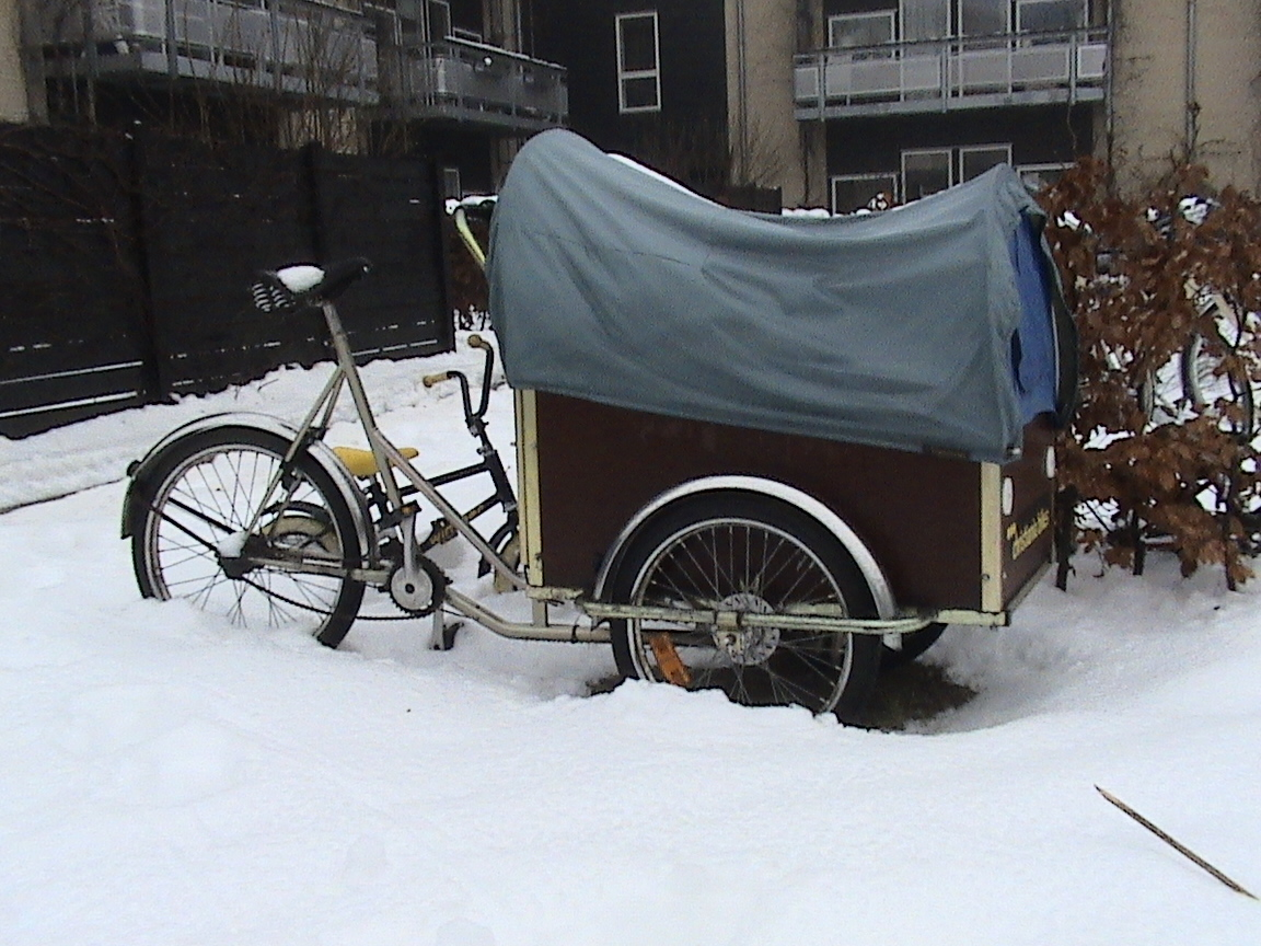 Cargo bike from Christiania, Denmark Christiania Ladcykel med pressening. Photo: Ernst Poulsen